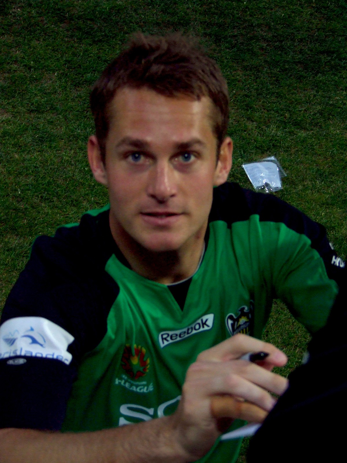 Glen Moss at the end of a Wellington Phoenix match.